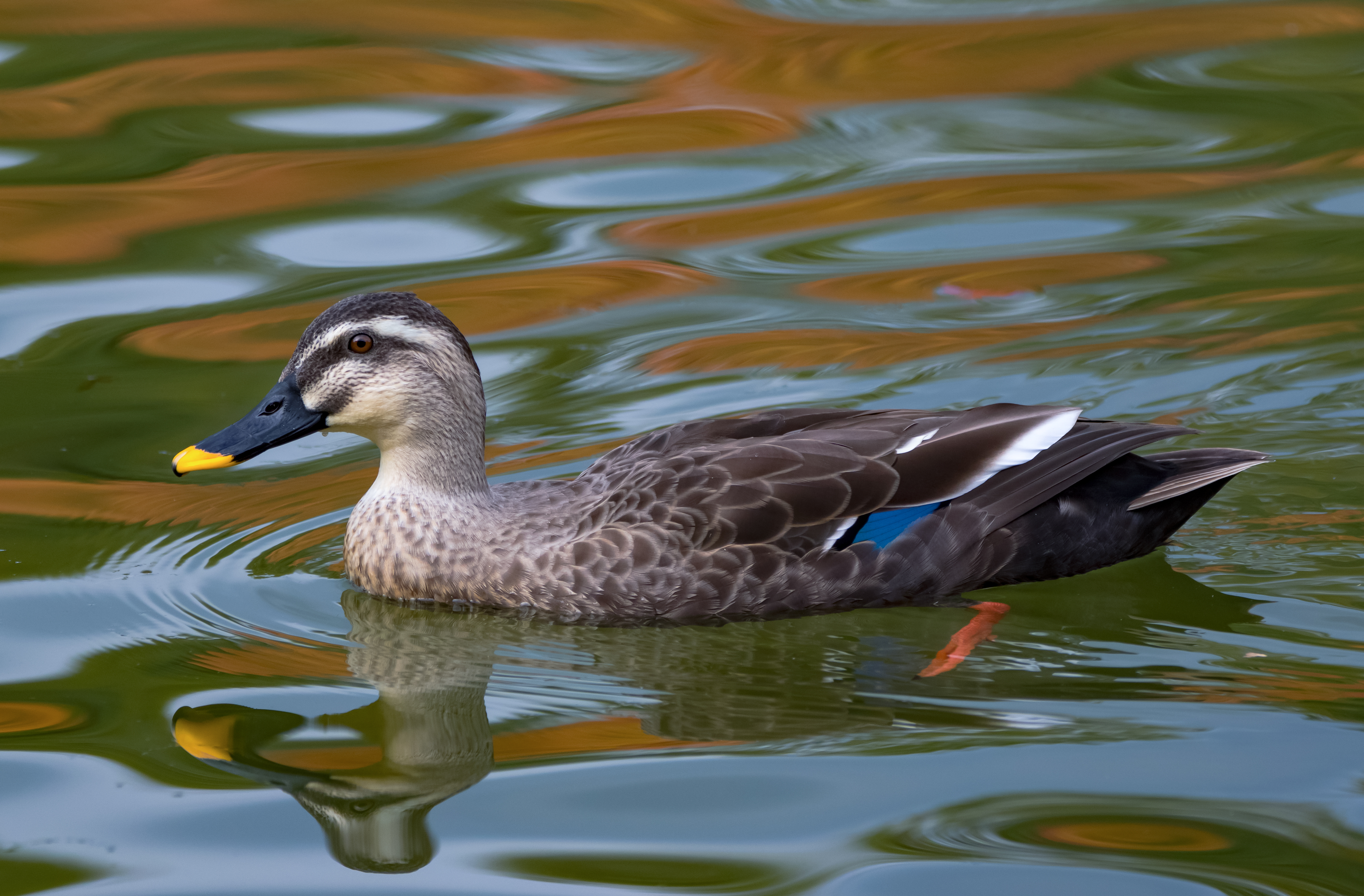 Spot-billed duck at Expo'70 Commemoration Park in Osaka.